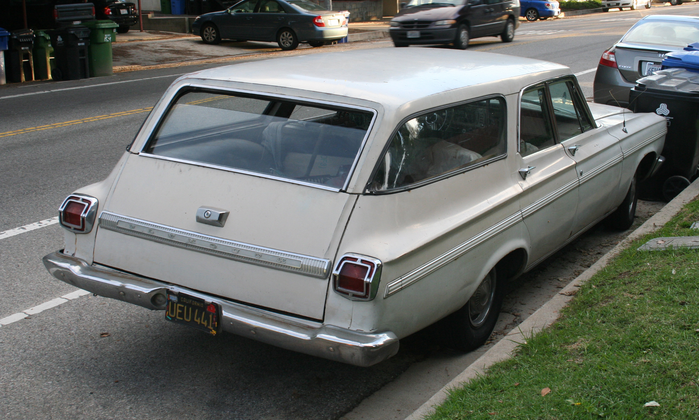 1965 Plymouth Belvedere II Station Wagon, in Silver Lake (LA,CA)